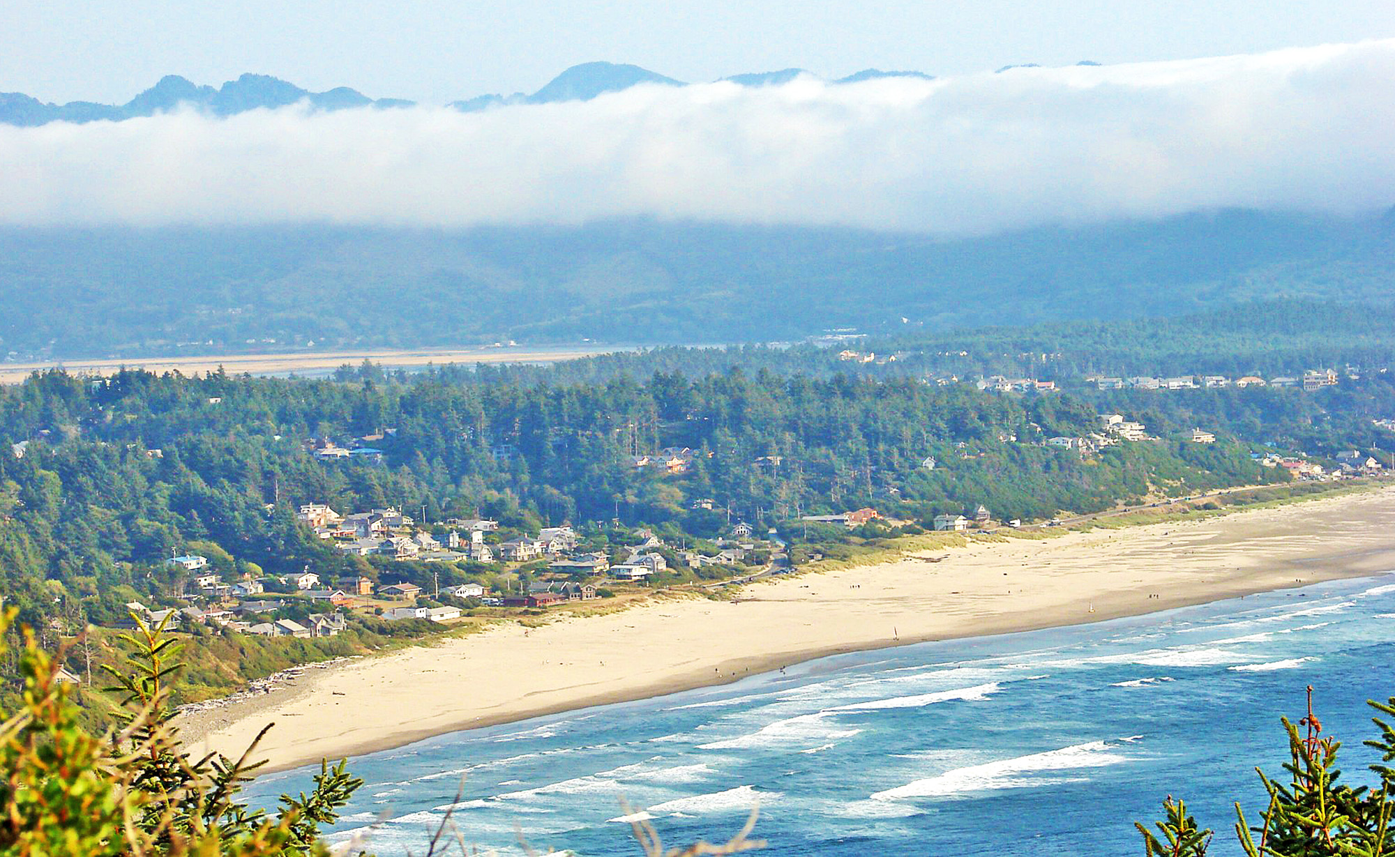 (1 in a multiple picture album) This is another place that makes one think of Hawaii. I'm guessing that those who named the town had been to the islands. The picture is taken from the lookout with the same name, Neahkahnie. I like the way the clouds were lying low with the mountains peaking above too.